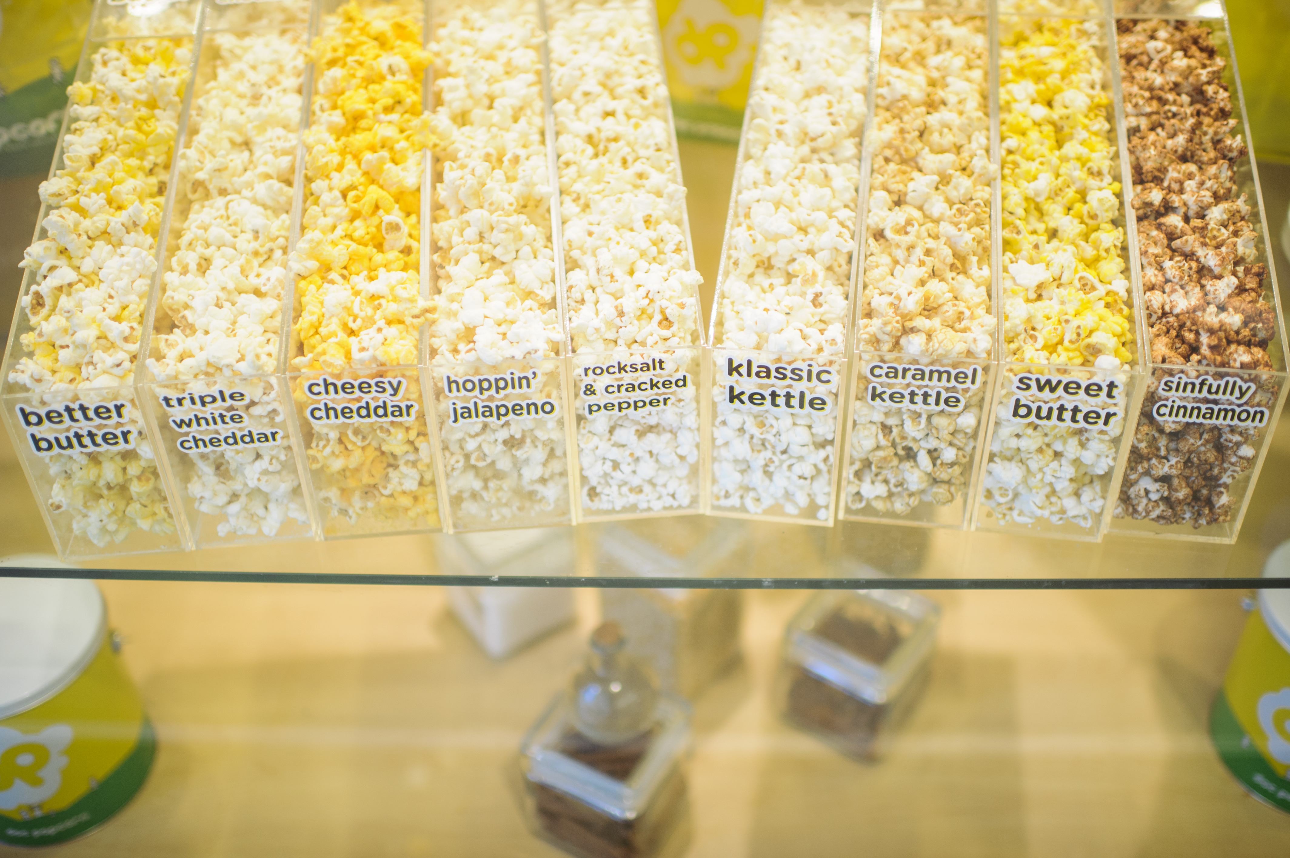 Doc Popcorn Fresh Natural Flavors